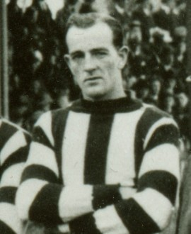 Photograph of George Tory in 1922